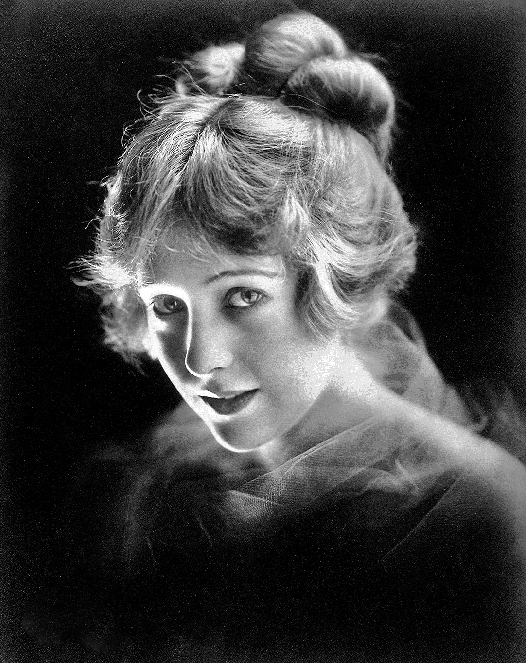 1918 portrait of American actress Jewel Carmen (1897–1984) by American photographer Albert Witzel (1879–1929).